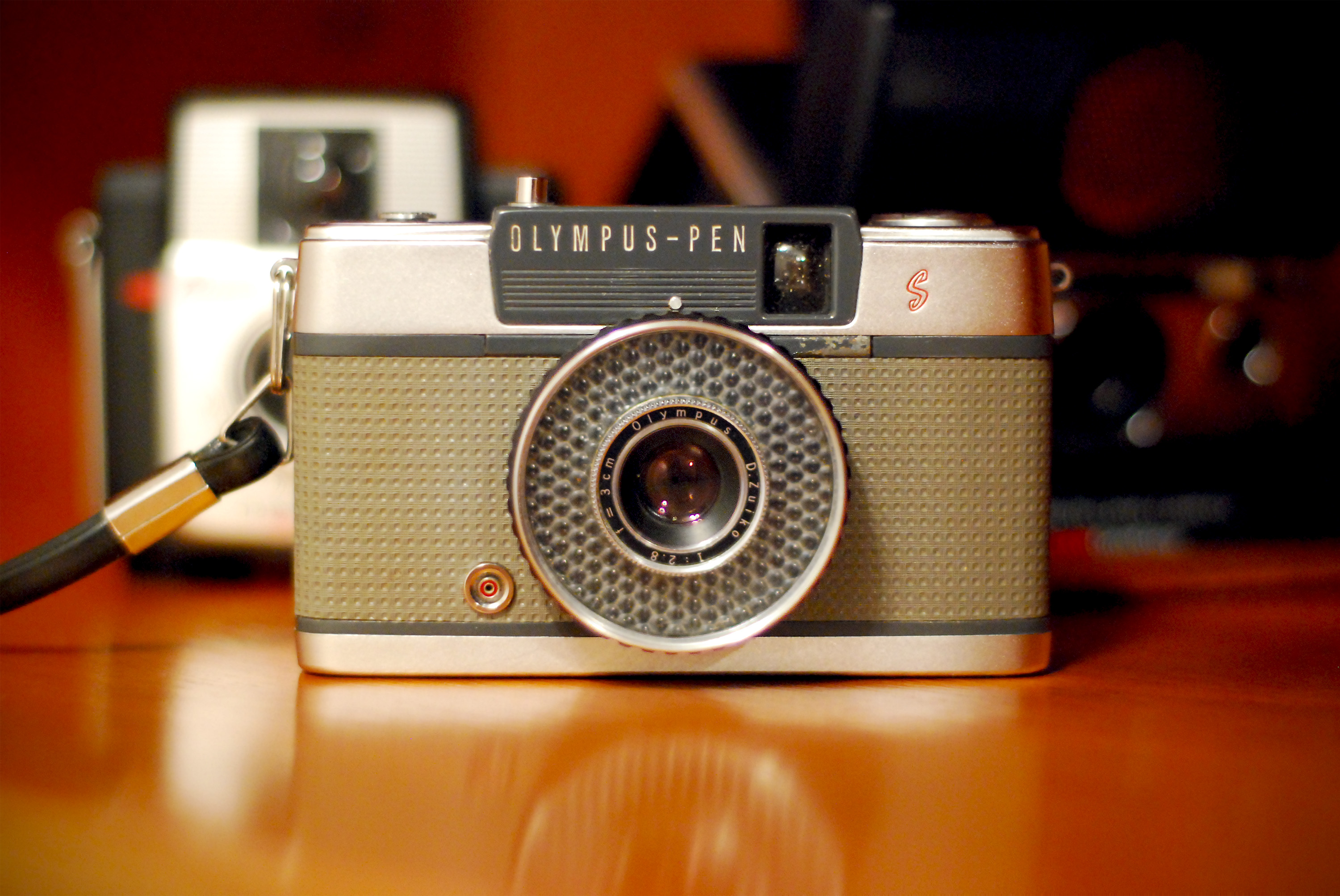 The Pen EE was introduced in 1961 and was the amateur model, with fully automatic exposure and fixed focusing. It is a true point and shoot camera, and has a 28mm f/3.5 lens. The Pen EE family is easily recognized by the selenium meter window around the lens. The Pen EE.S, launched in 1962, is the same model with a 30mm f/2.8 and a focusing ring, made necessary by the wider aperture. More info here